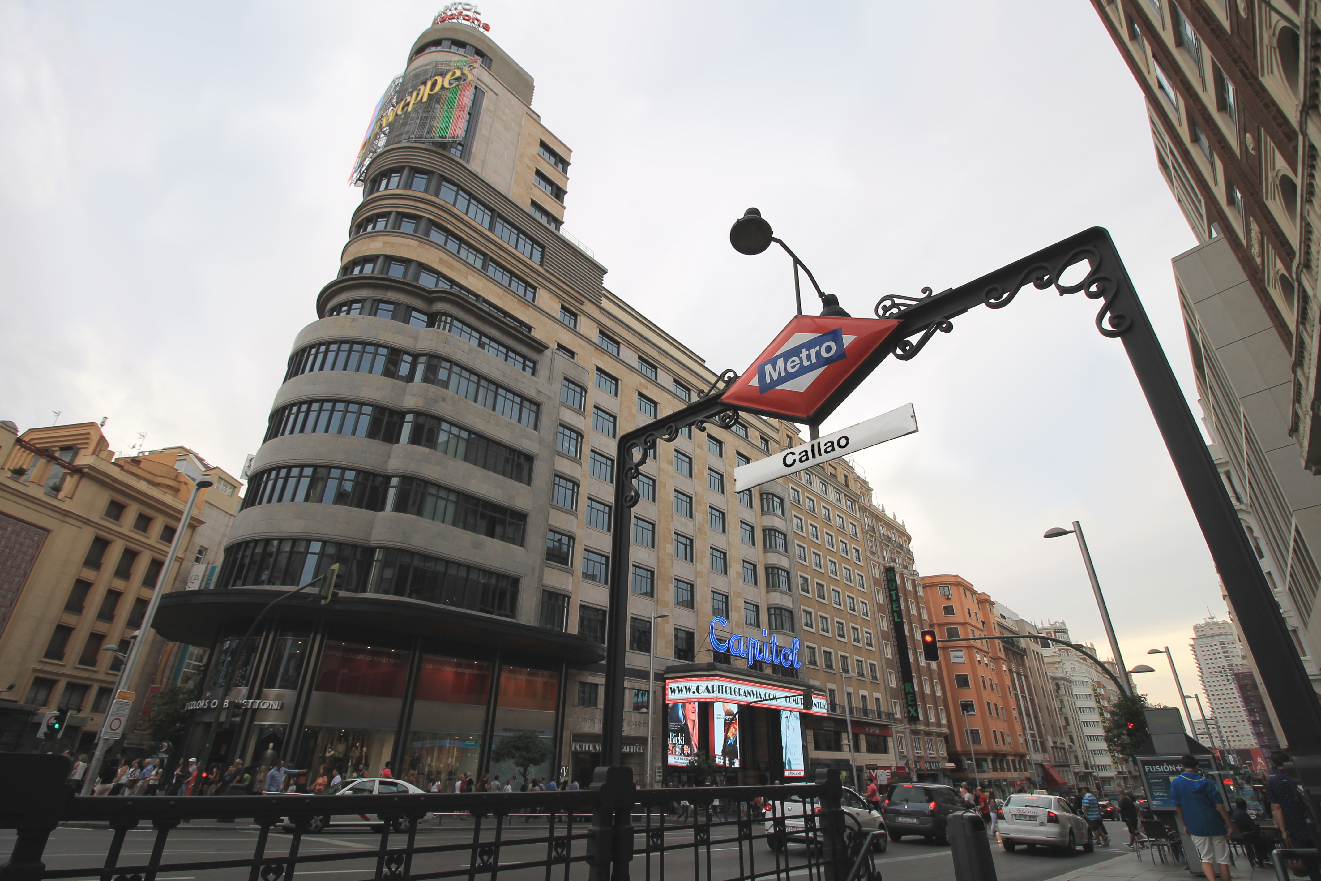 Entrance of Callao metro station in Madrid (Spain). Background: Gran Vía (avenue).